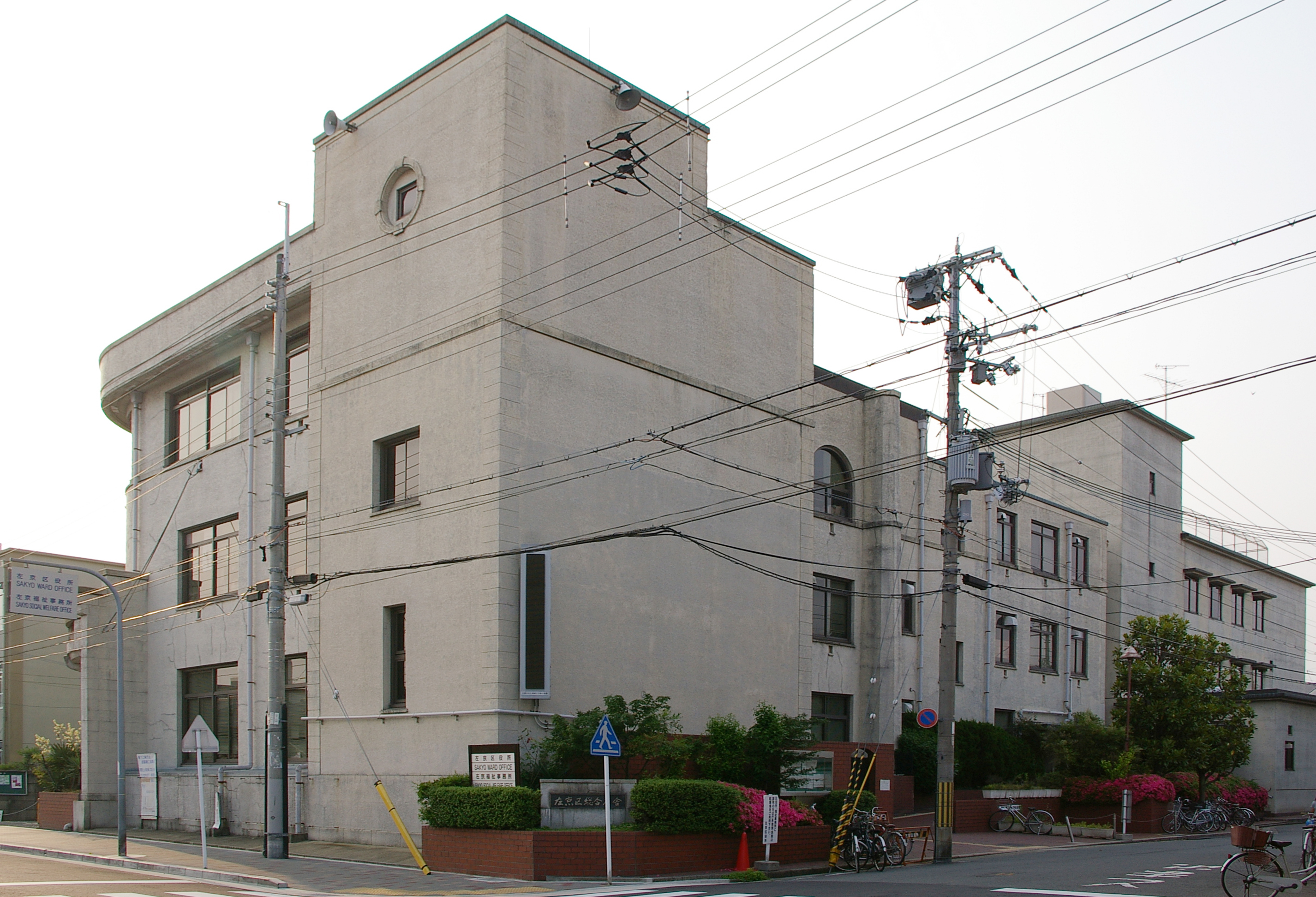 Photograph of Sakyo Ward General Office in Sakyo-ku, Kyoto, Kyoto Prefecture, Japan.